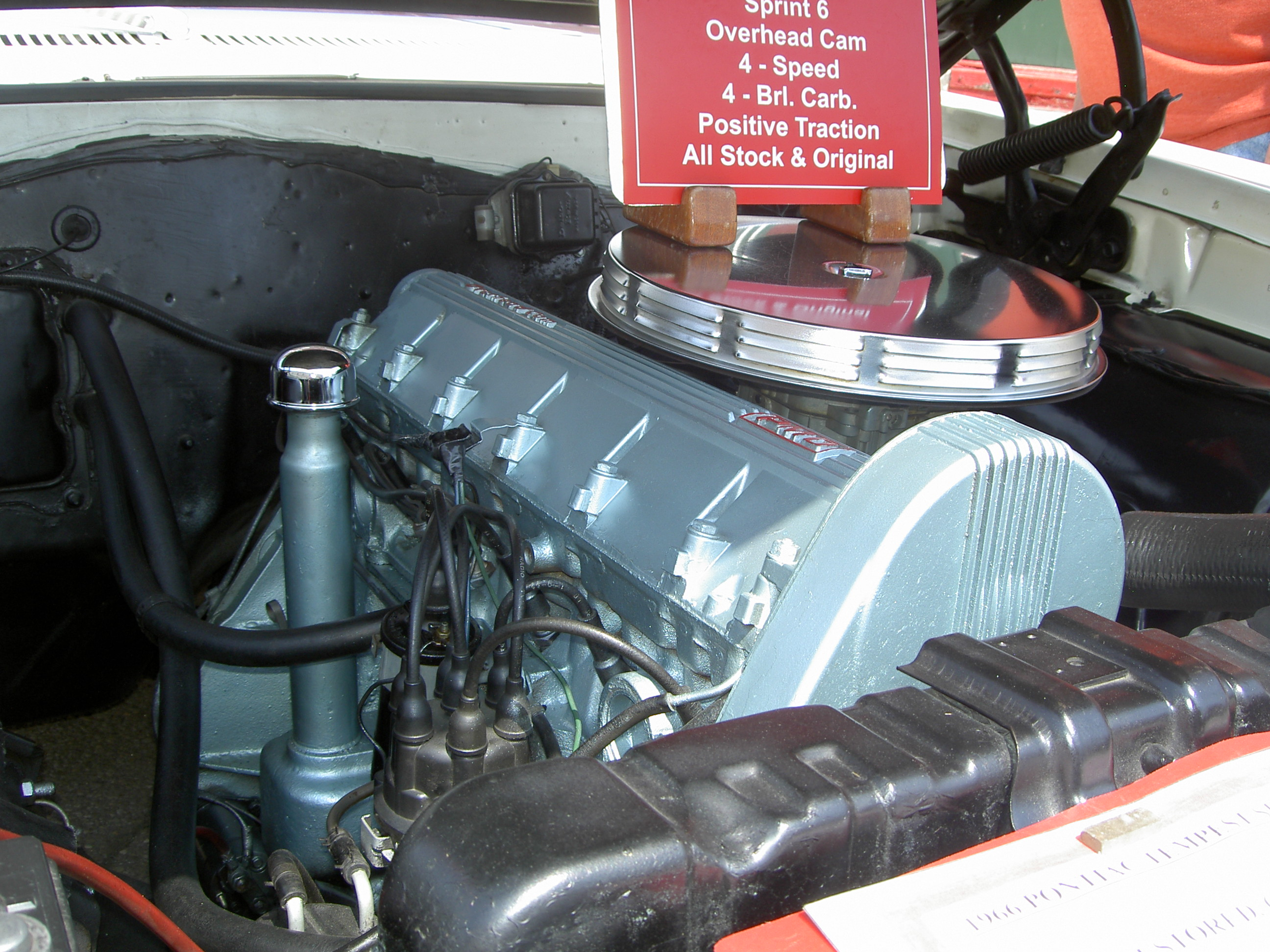 Pontiac 3.8 liter overhead cam straight-6 engine